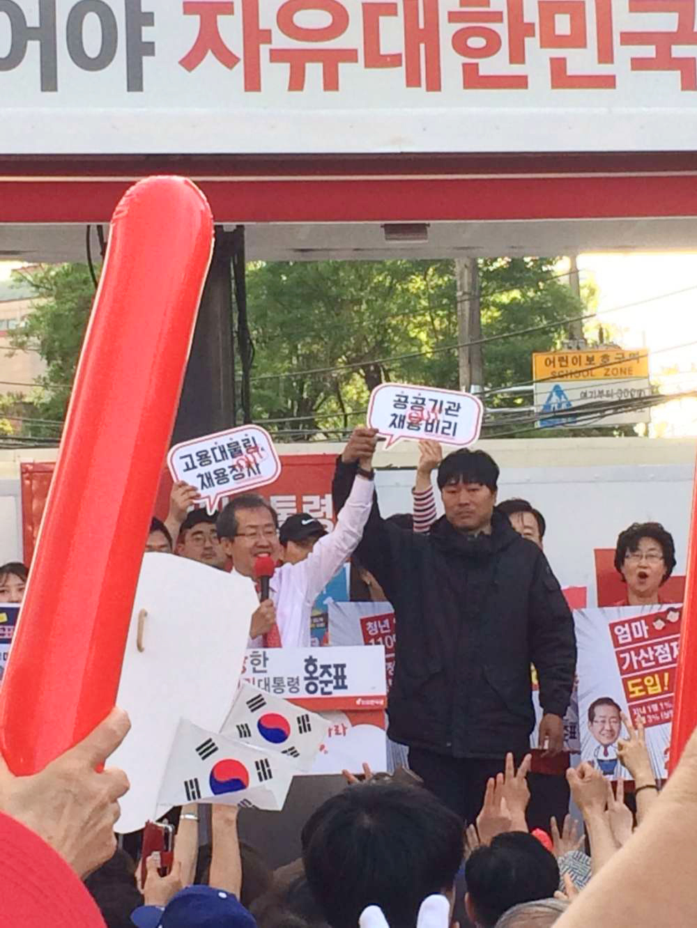 On May 5 2017, the South Korean presidential candidate Hong Jun-pyo saved a protester on the top of the arch of Yanghwa Bridge by persuasion. The guy was protesting against the discontinuation of the South Korean bar examination. The protester was rescued after Hong promised him to reinstate the exam. The guy joined Hong's presidential campaign later on the day.